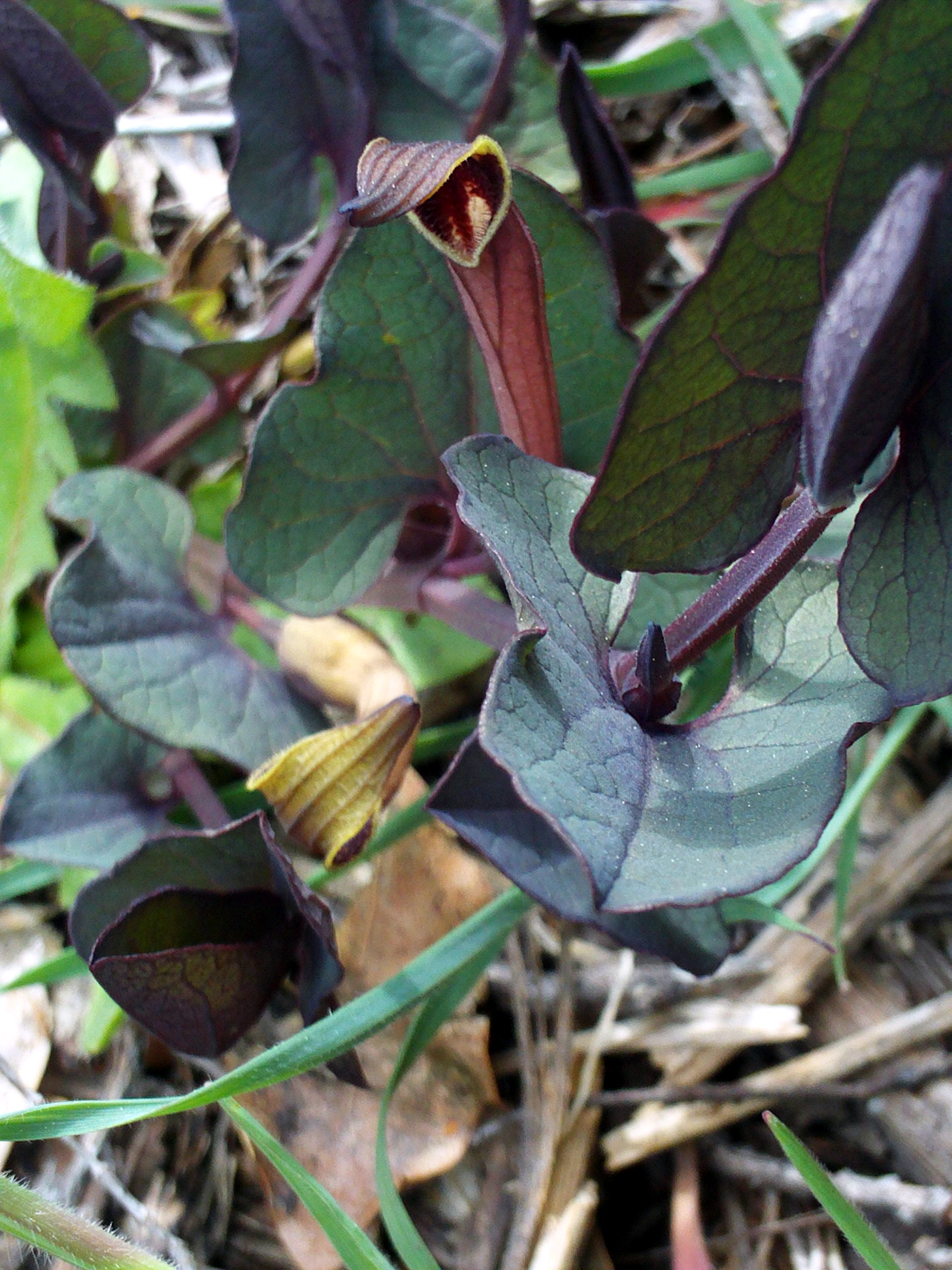 Aristolochia pistolochia flower close up, Dehesa Boyal de Puertollano, Spain